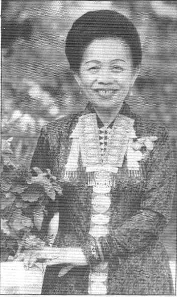 Princess Deo thi Toi